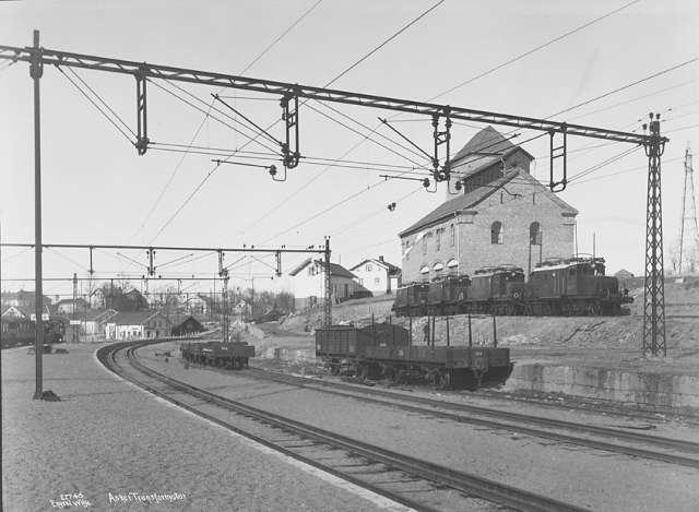 Asker railway station, with transformer station and El 1 locomotives; Asker, Norway.